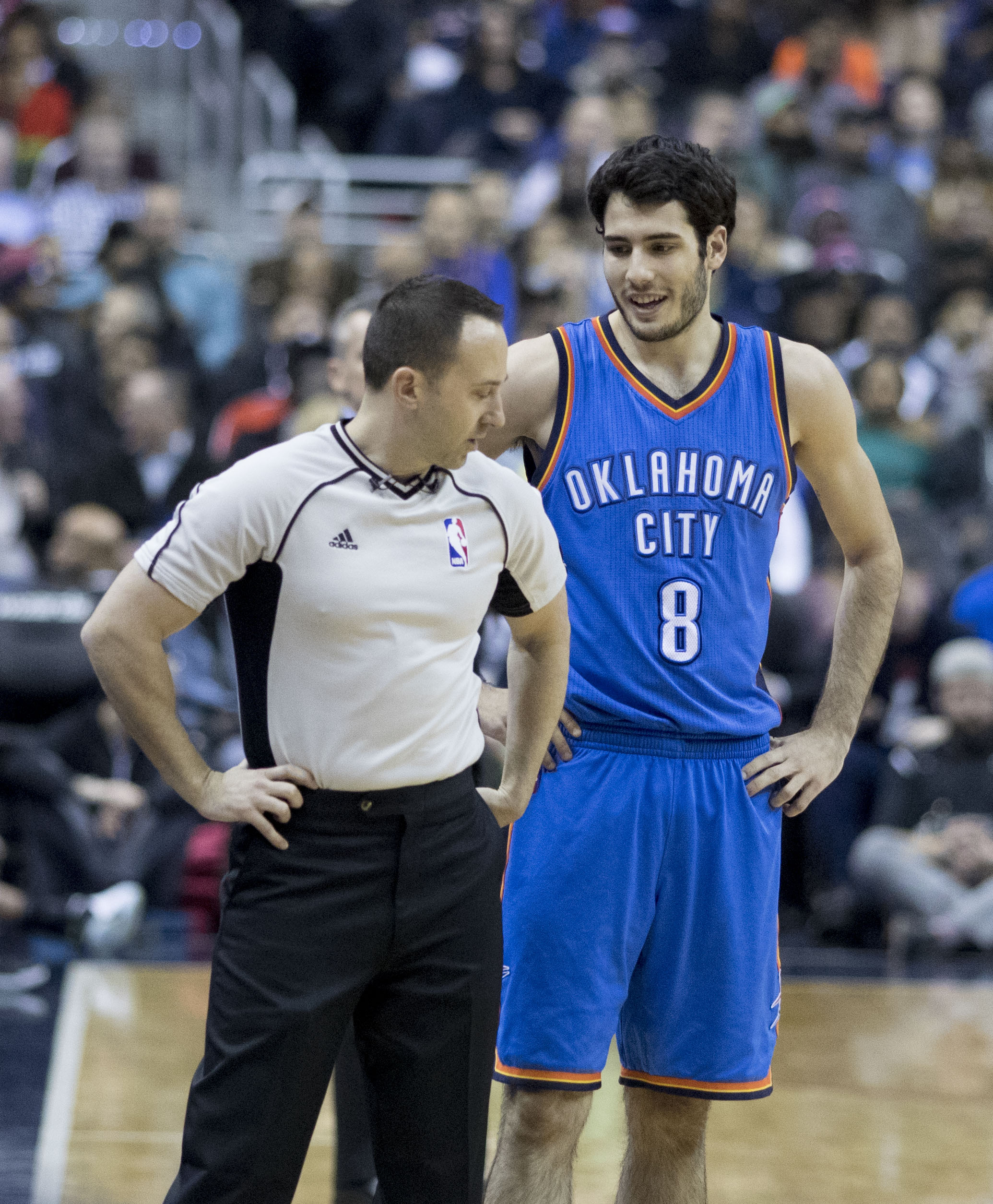 Álex Abrines during a Oklahoma City Thunder game versus the Washington Wizards.